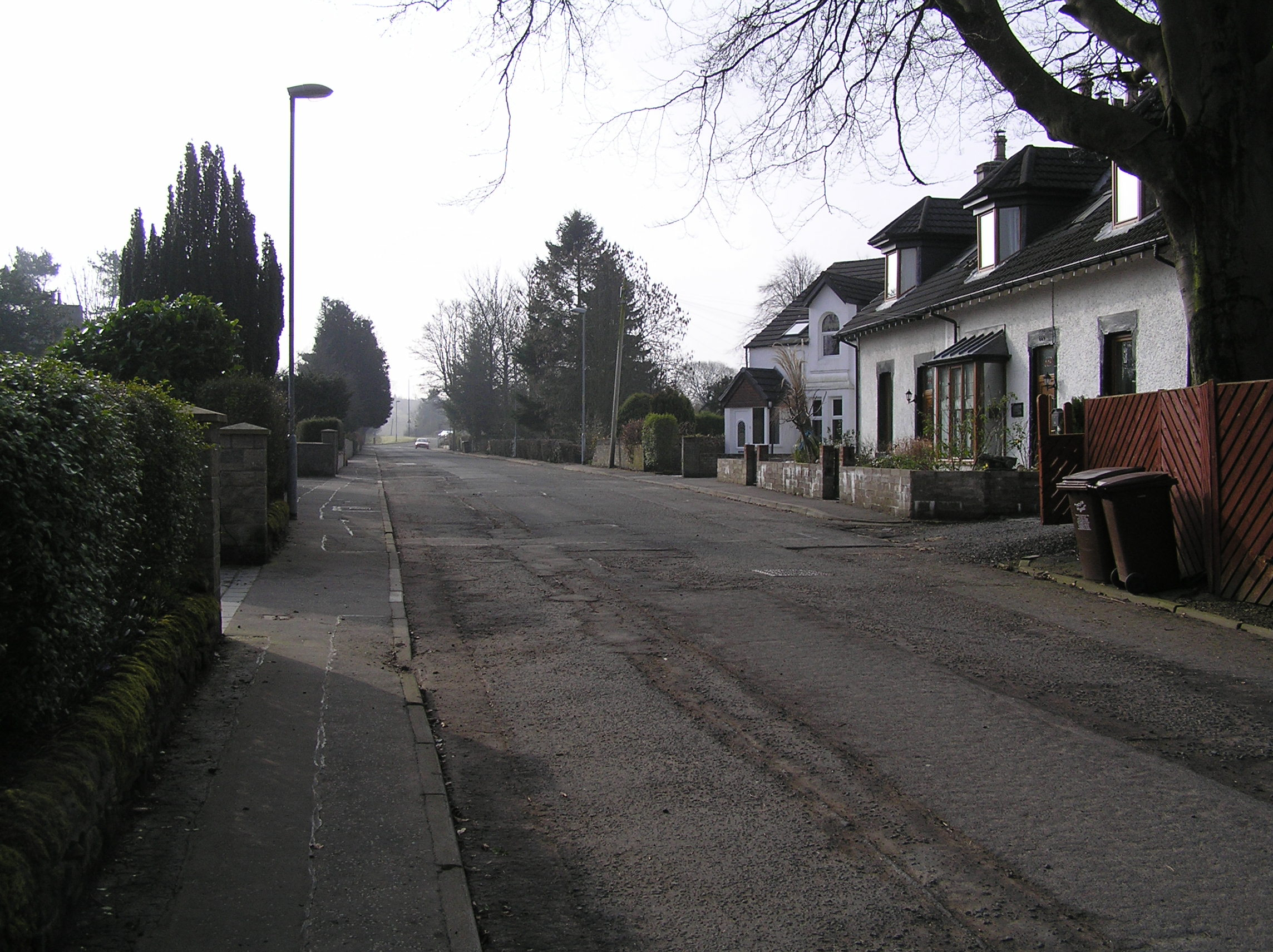 Photo of Stirling Road, Luggiebank looking north from similar position to Stirling_Road_Luggiebank_circa_1925.jpg